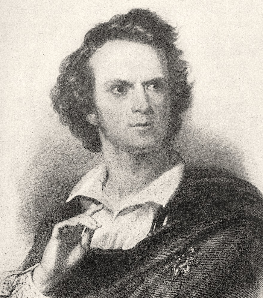 Portrait of the English actor Charles Walter Couldock as Hamlet